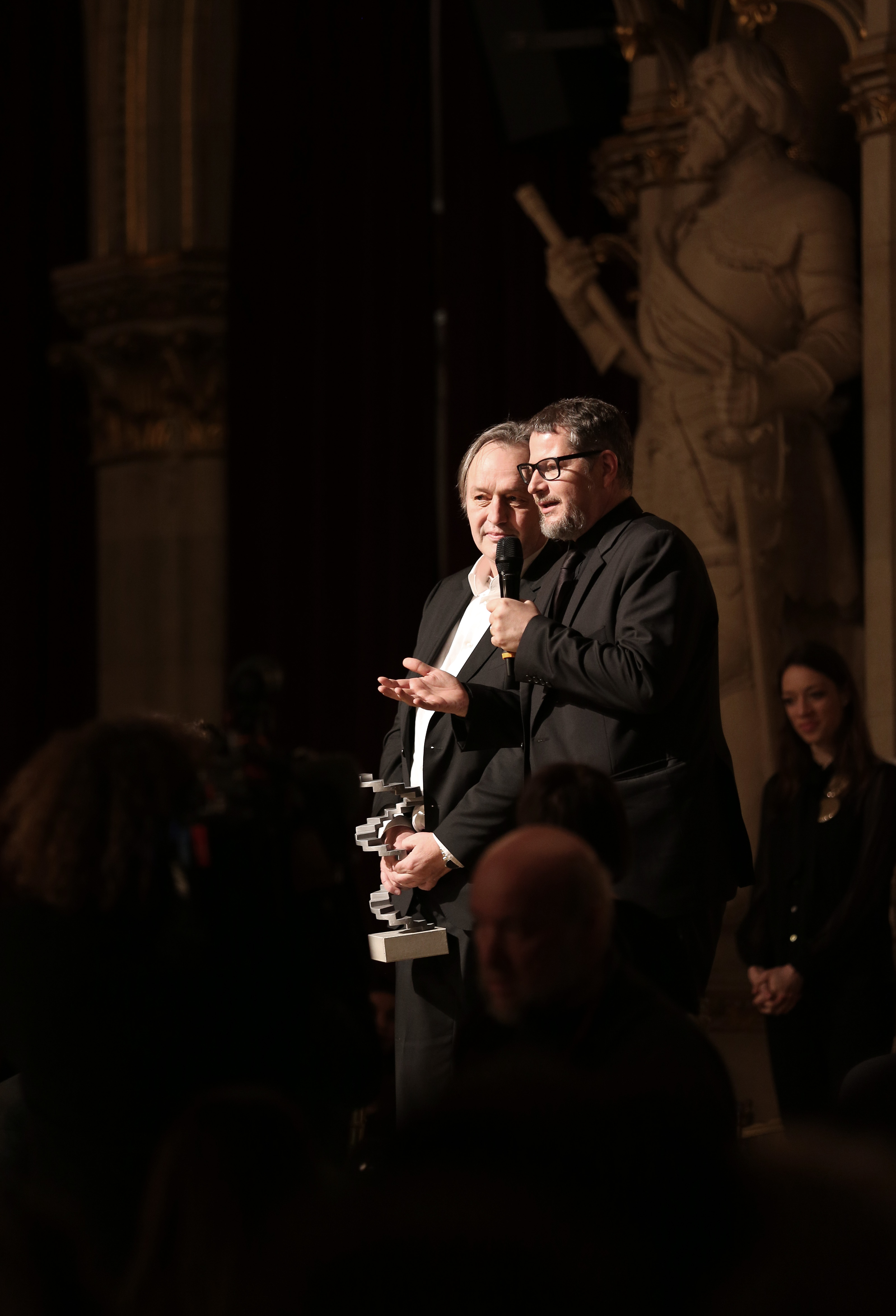 Helmut Grasser and Andreas Prochaska (best fictional film for The Dark Valley) at the Austrian Film Awards 2015 at Rathaus, Vienna,Austria.